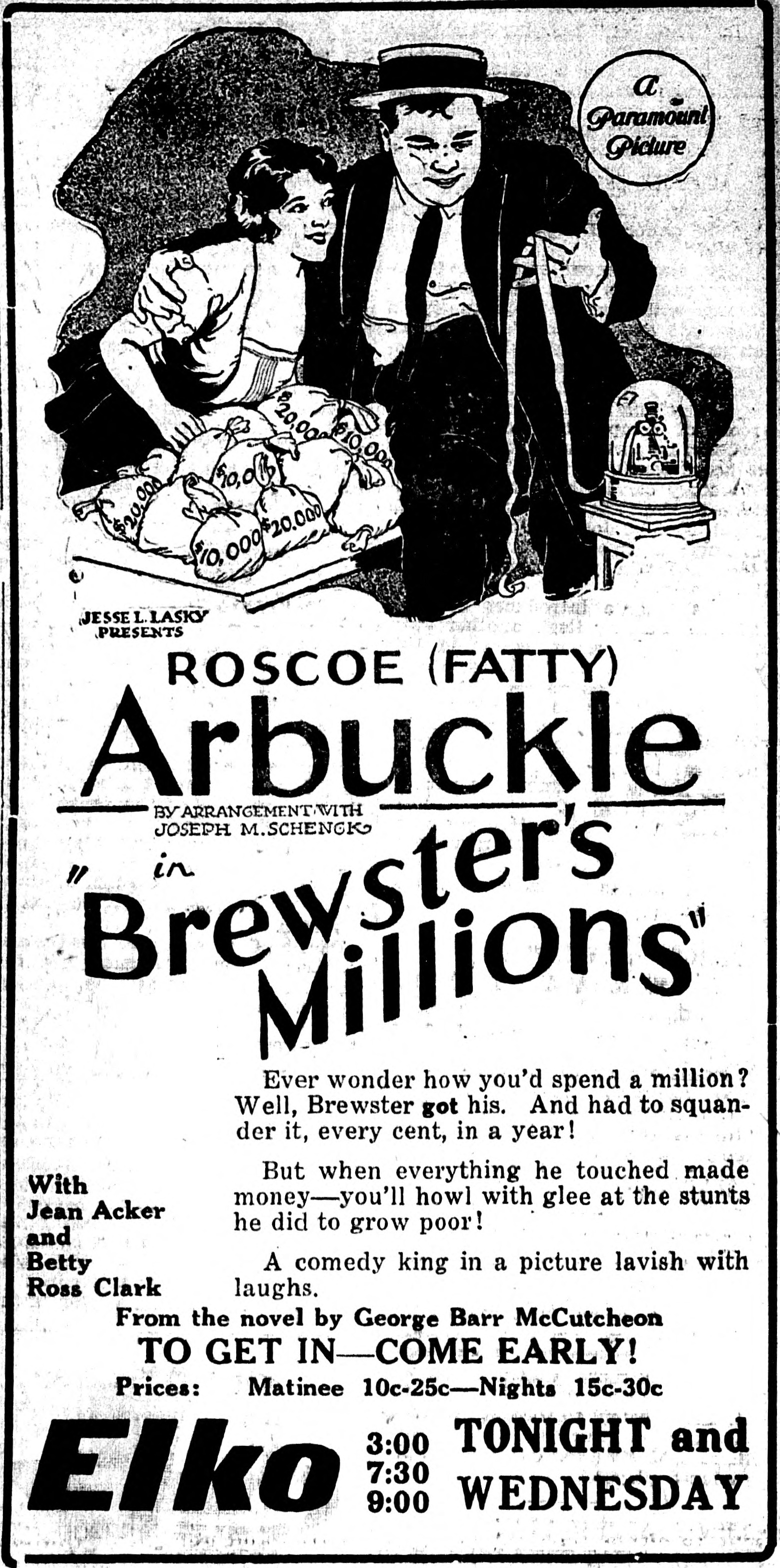 A newspaper advert from The Bemidji Daily Pioneer for the American comedy film Brewster's Millions (1921).